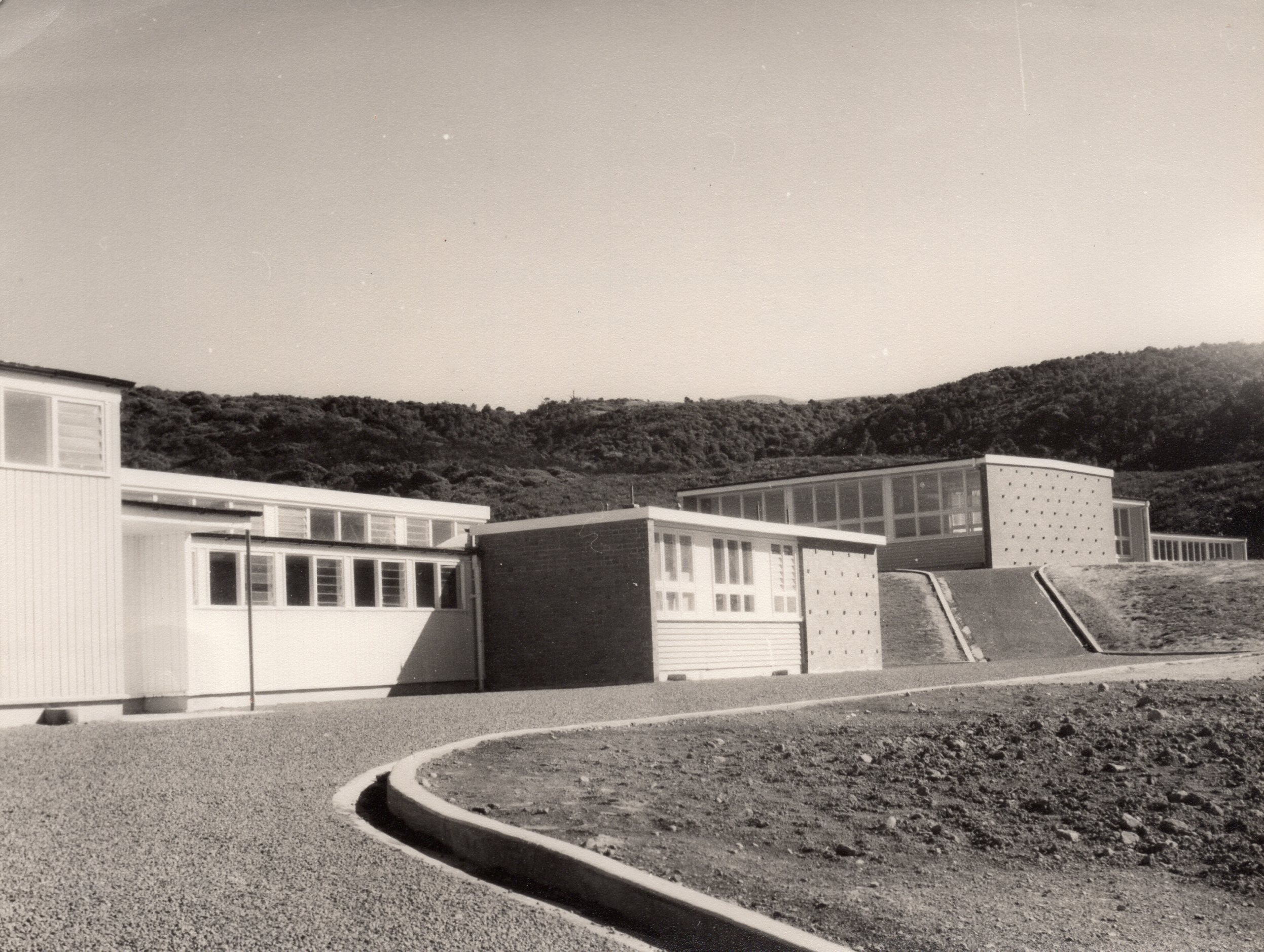 Mana College, Porirua GA7435 (1958) Archives New Zealand Reference: ABKK 24414 W4358 487 / 68 GA7435 This item is from series 24414 [1] This series is comprised of Public Works Department, Ministry of Works, Ministry of Works and Development, and Works and Development Services Corporation (New Zealand) Limited photographic records documenting construction and engineering throughout New Zealand. A wide variety of subjects are depicted, including: Historic places Architecture Roading and Bridges Mechanical and Electrical Engineering Civil Engineering Housing Town Planning Power Engineering Water and Soil